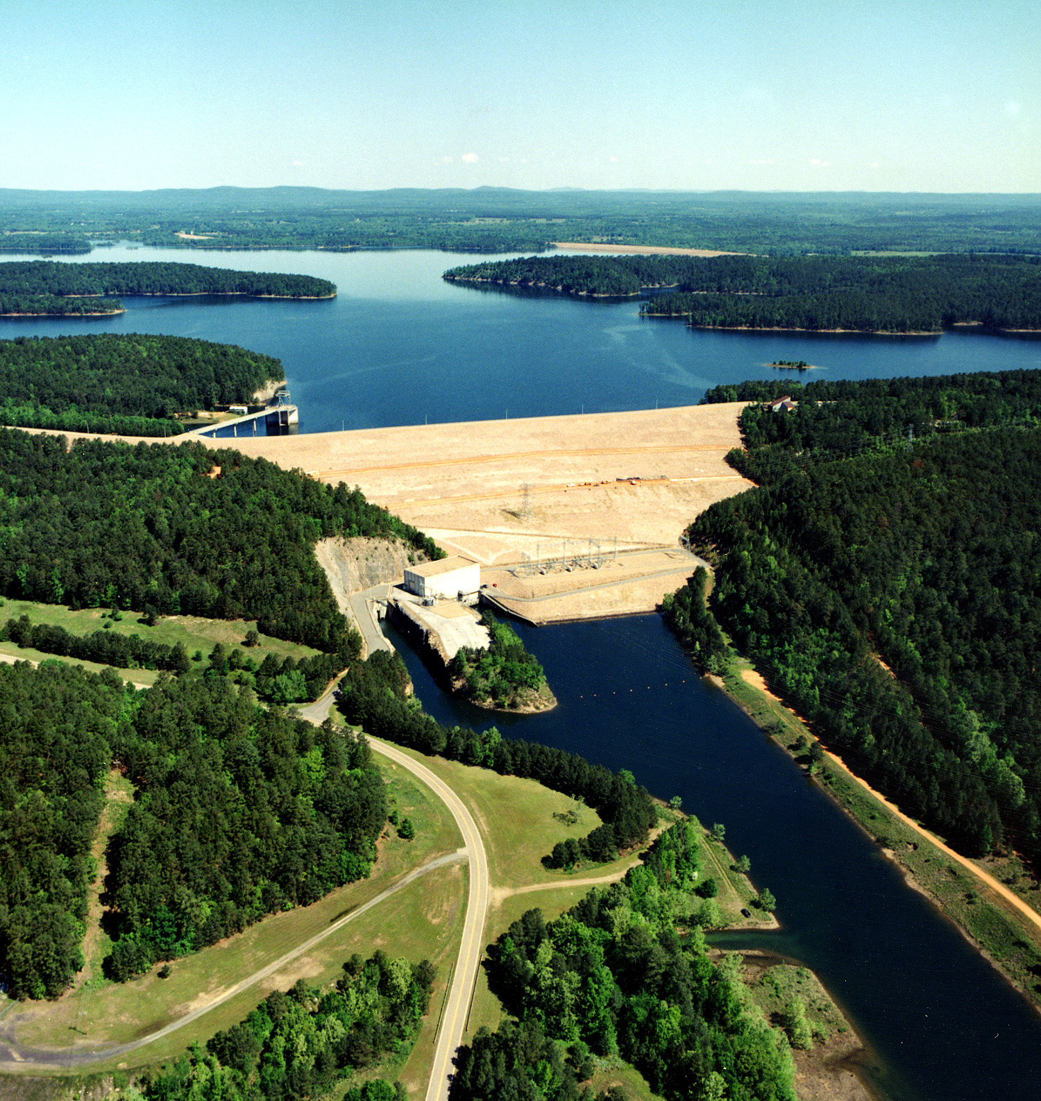 DeGray Dam and Lake on the Caddo River in Hot Spring County, Arkansas. The dam is located approximately seven miles (11 km) north-northwest of Arkadelphia, Arkansas. The dam was completed in 1972 by the U.S. Army Corps of Engineers. The dam has a 78 MW hydroelectric power plant.